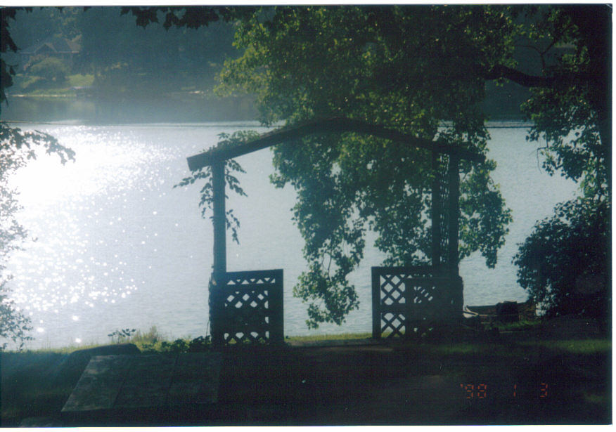 I took photo in Aug. 2005.Billy Hathorn (talk) 19:01, 4 July 2008 (UTC)